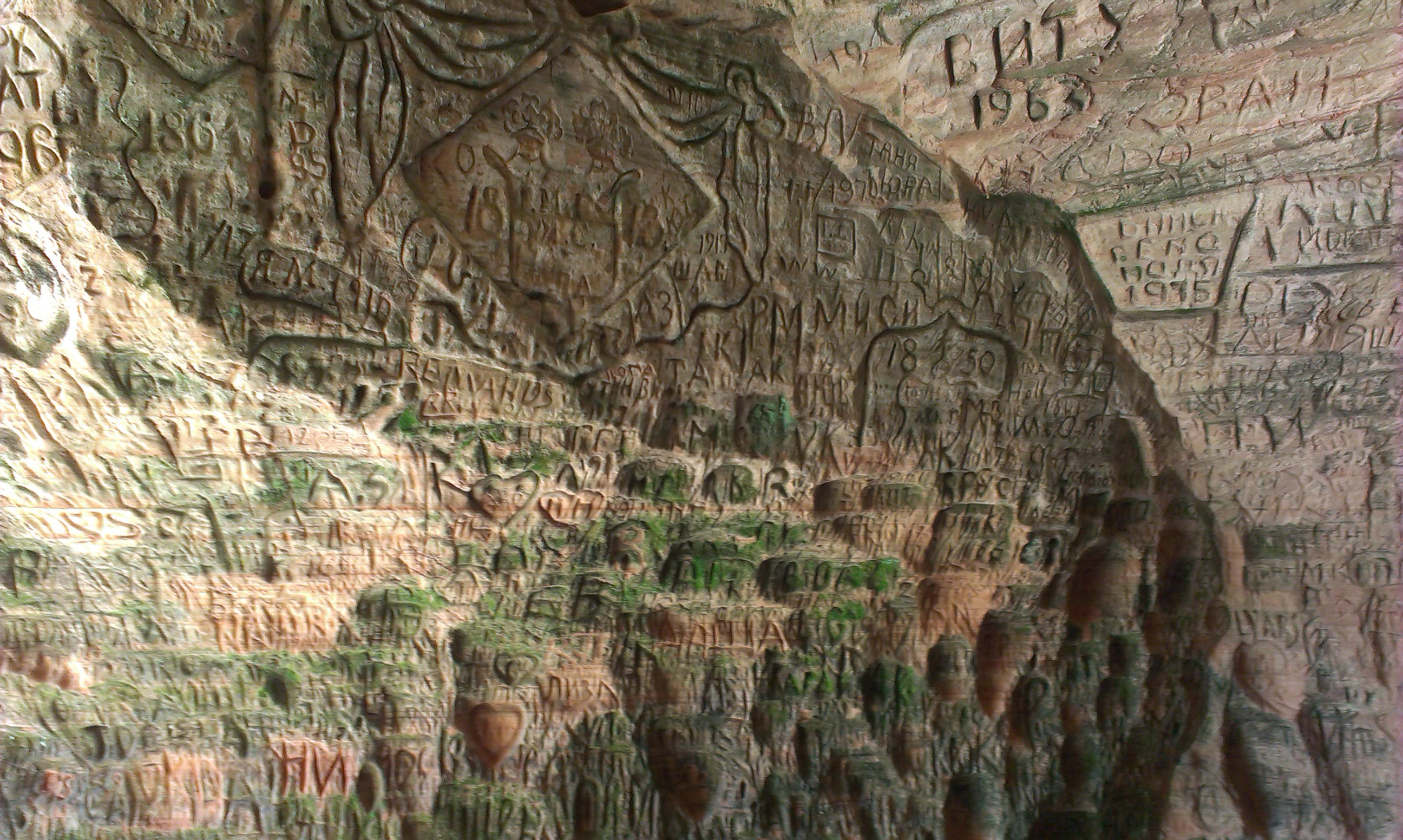 Inscriptions in the Gutmanis Cave made by visitors.